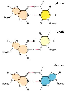 Wobble Base Pairs for Inosine